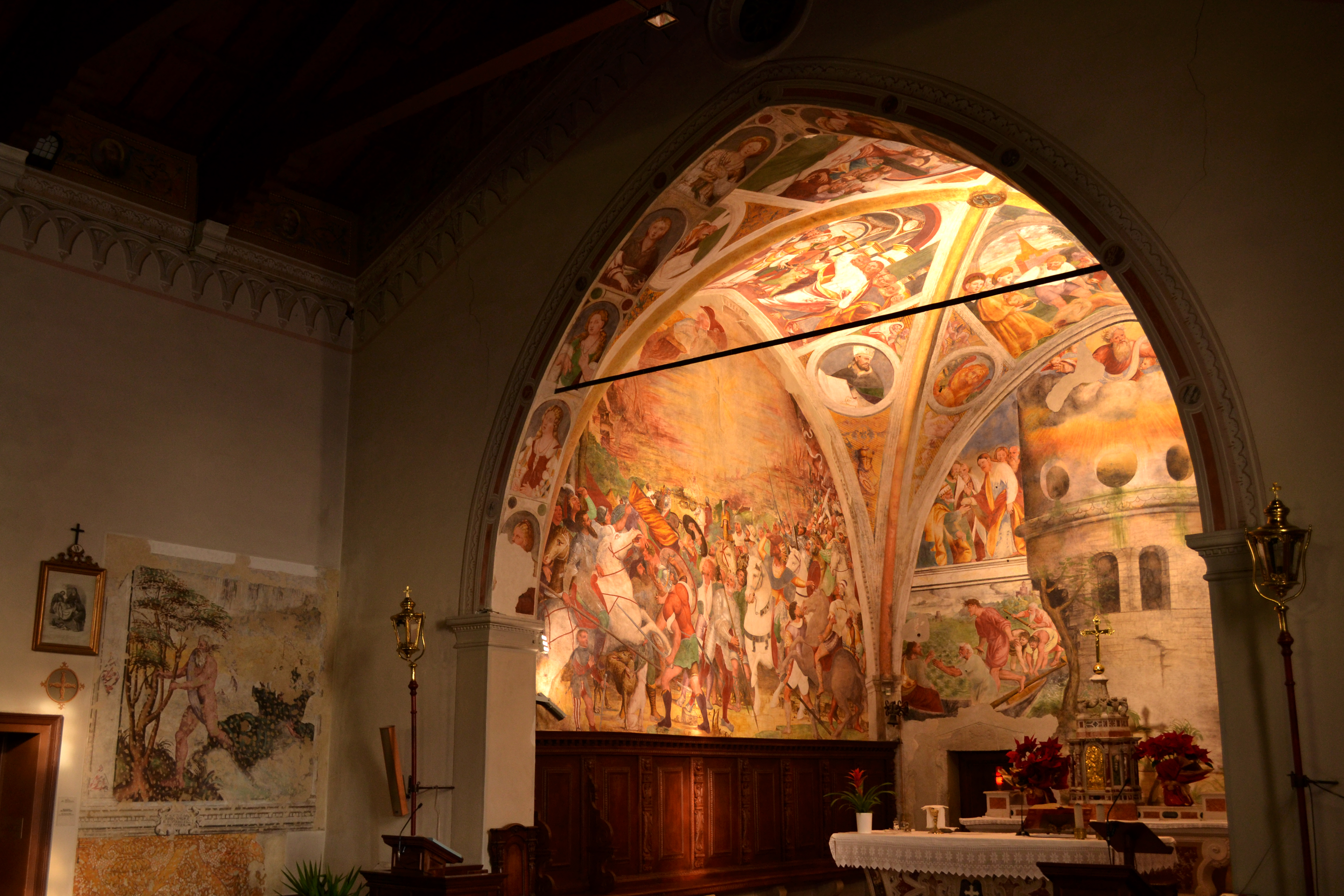 Interno della chiesa monumentale di Castello Roganzuolo, col presbiterio affrescato dopo il restauro (scatto di Paolo Steffan, marzo 2014)